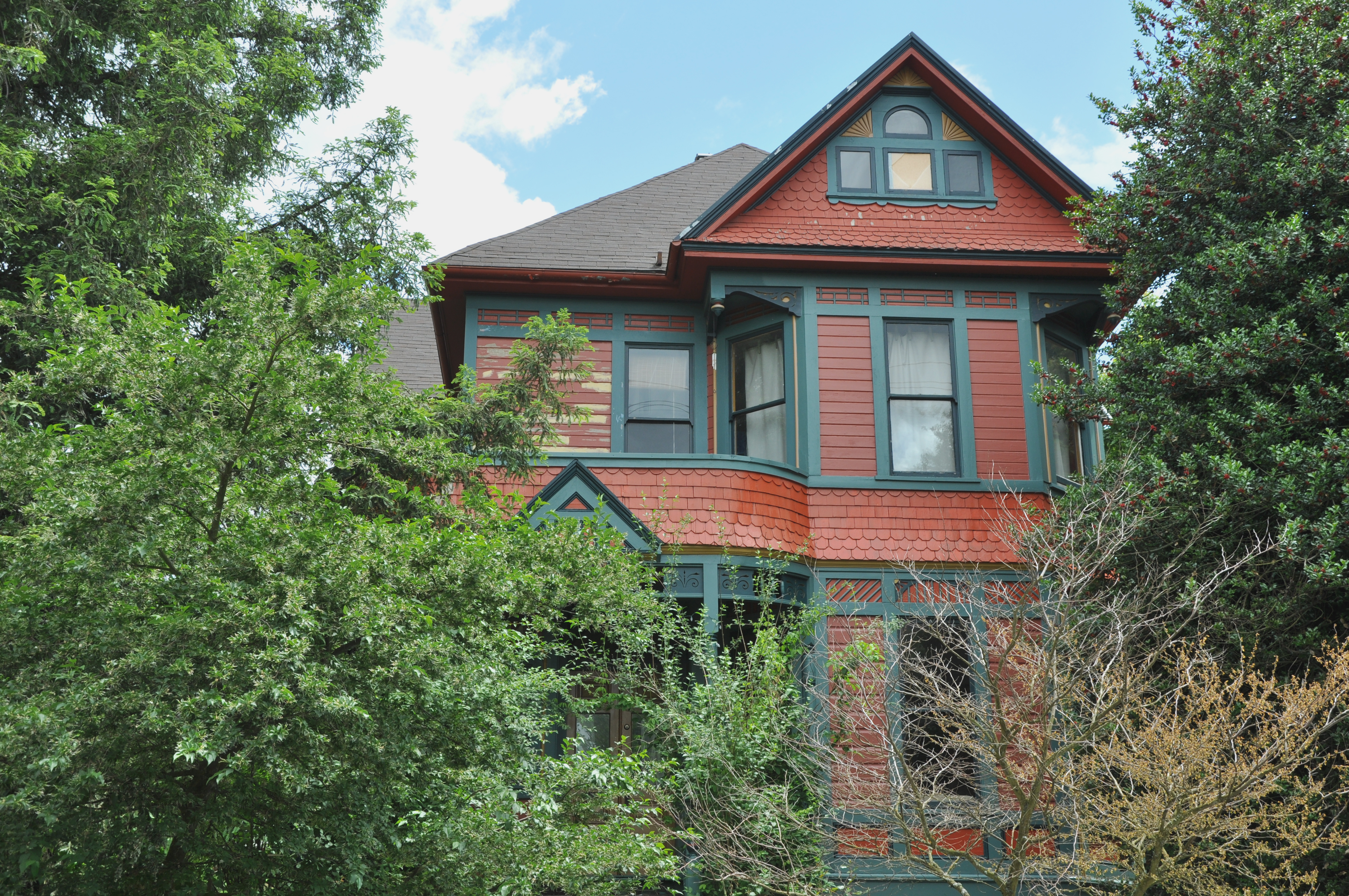 Wilhelmina Mohle House in Portland in the U.S. state of Oregon. The structure is listed on the National Register of Historic Places.